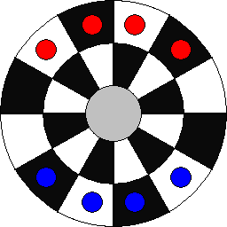 Dejarik game starup position.